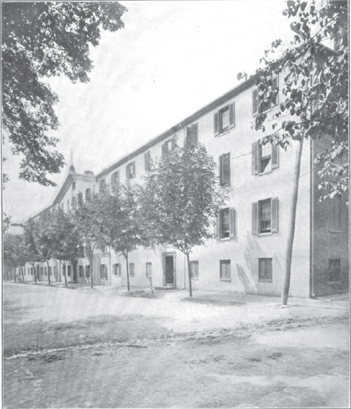 St. Stanislaus Jesuit Novitiate in Frederick, Maryland (operational from 1833-1903; see p. 141)